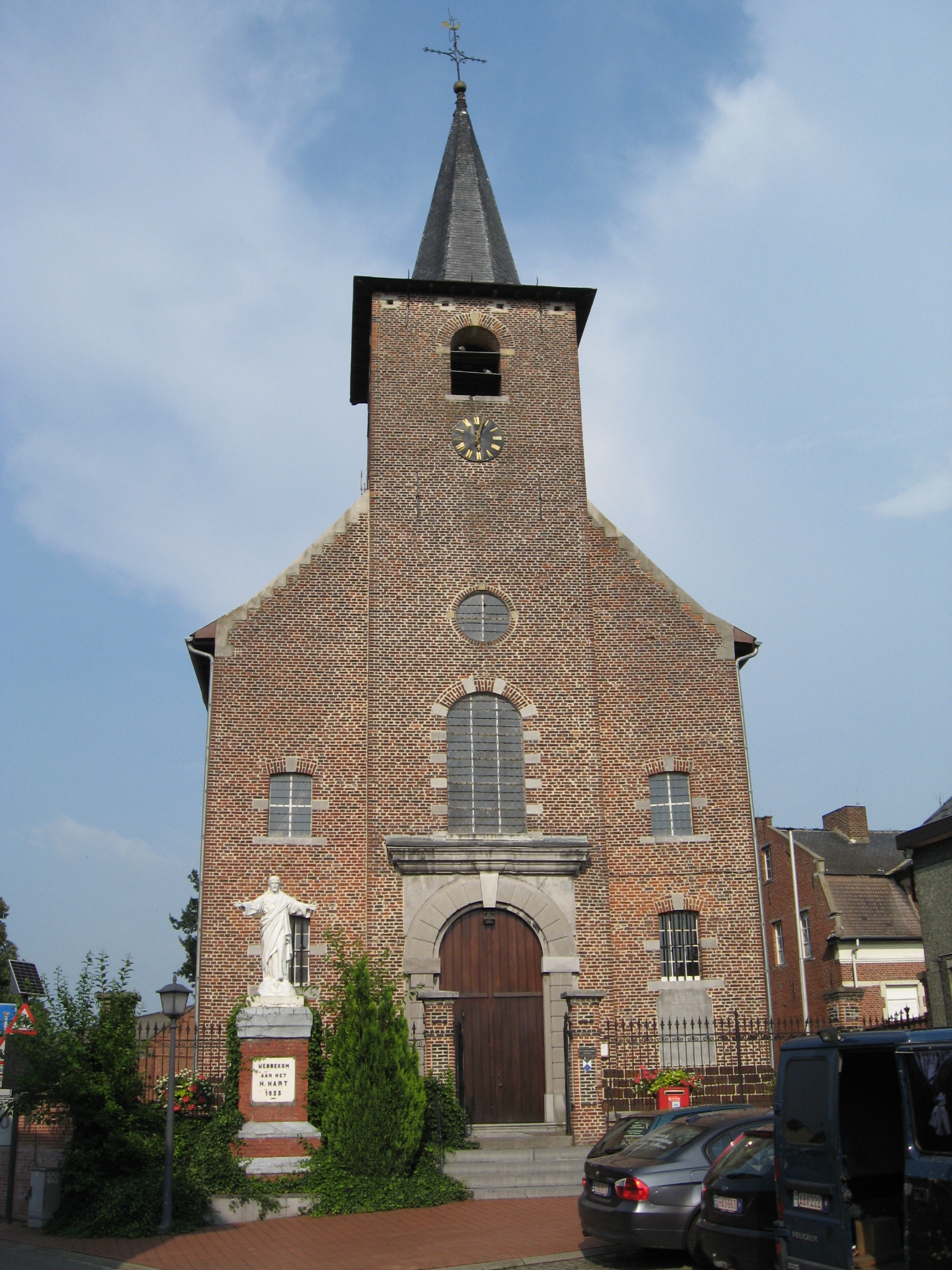 Church of Saint Trudo in Webbekom, Diest, Flemish Brabant, Belgium